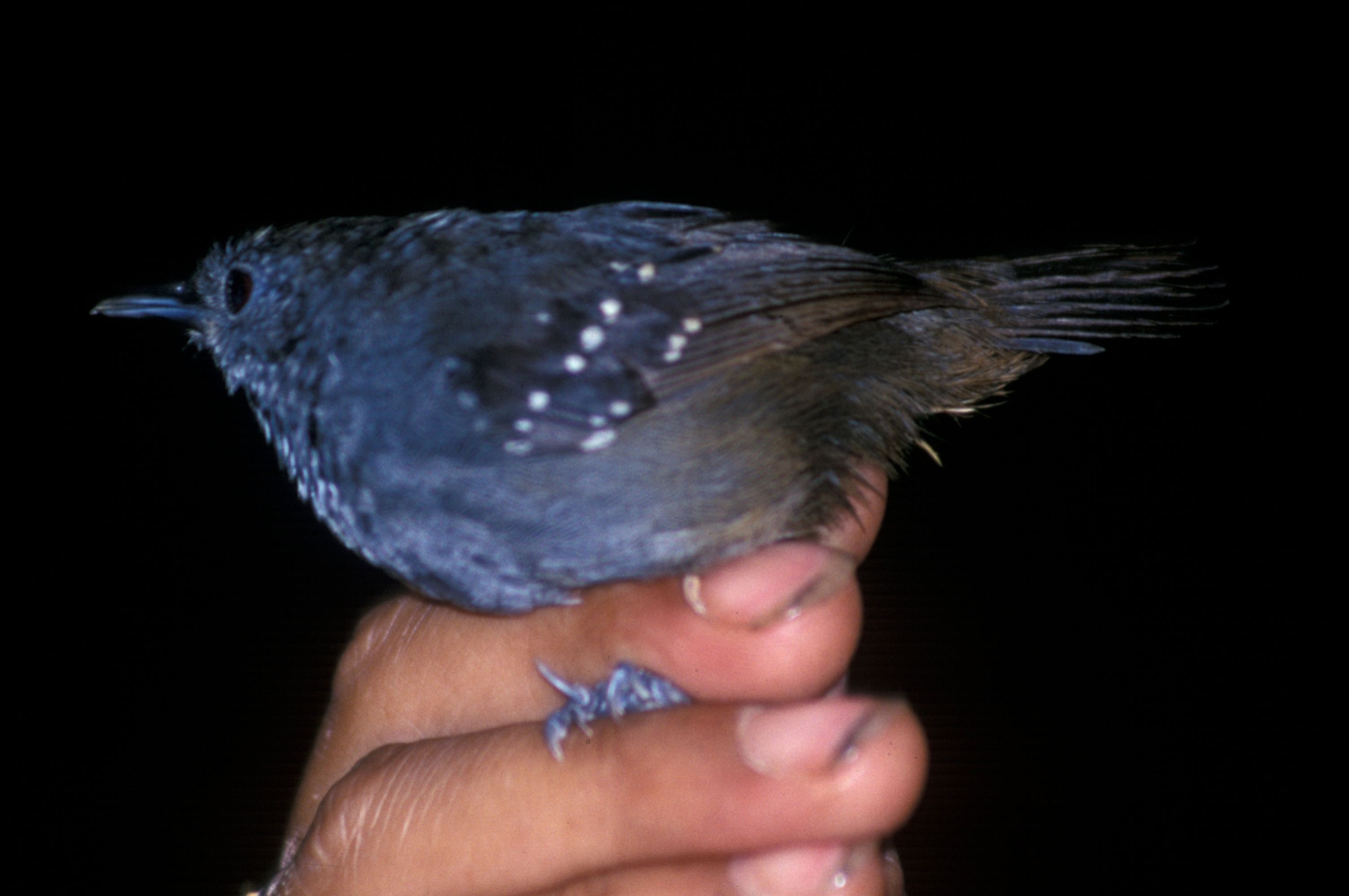 Spot-winged Antbird (Schistocichla leucostigma). A male photographed in Cordillera del Cóndor, south-eastern Ecuador.